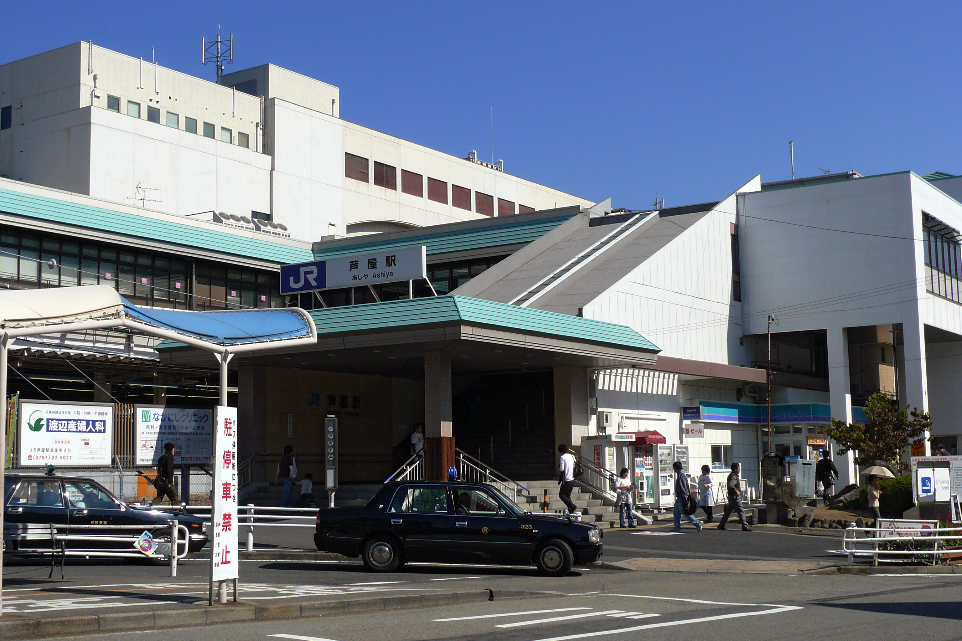 JR Ashiya Station in Ashiya, Hyogo prefecture, Japan